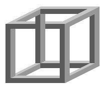 Impossible cube